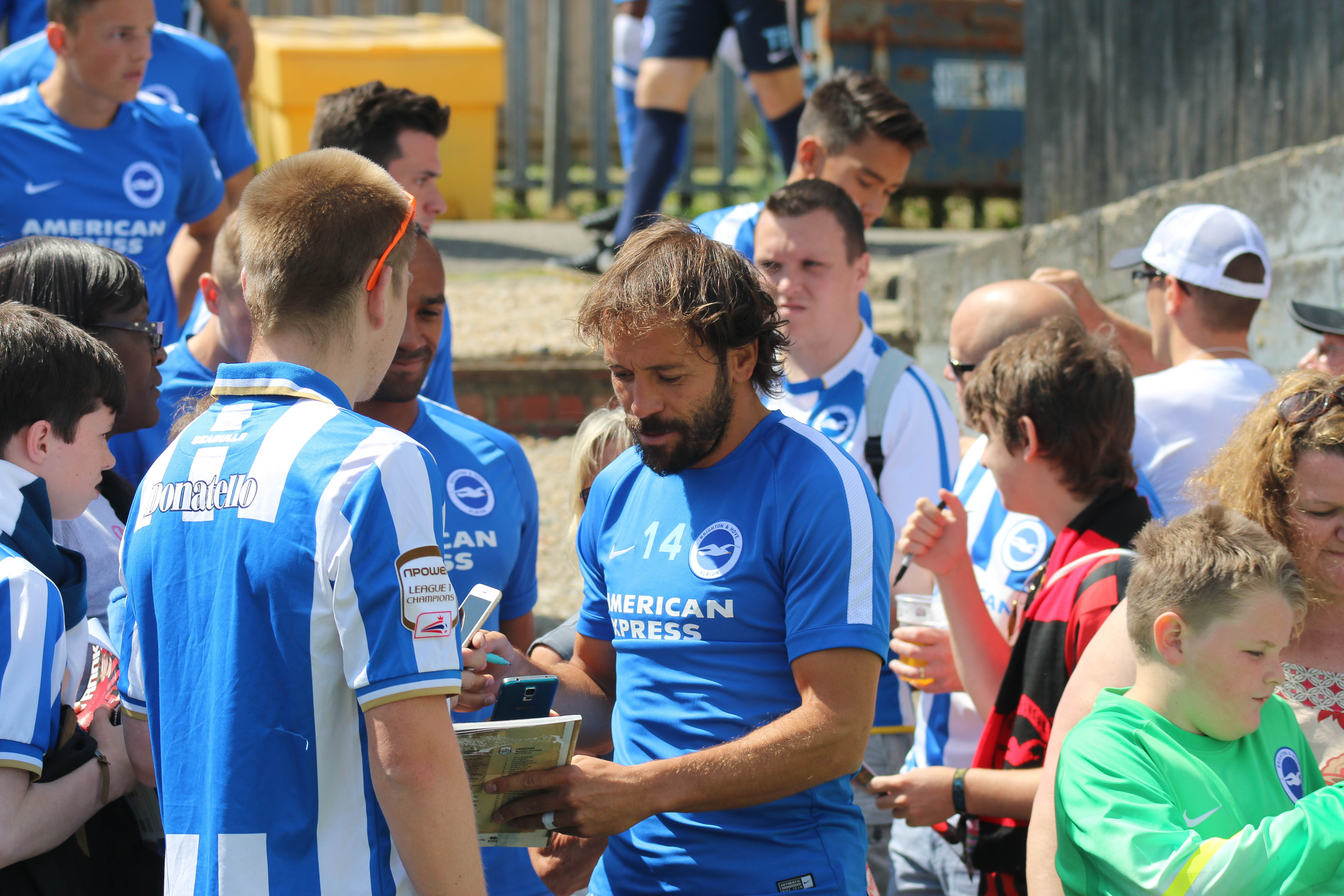 Lewes 0 BHA 0 18 July 2015-036.jpg